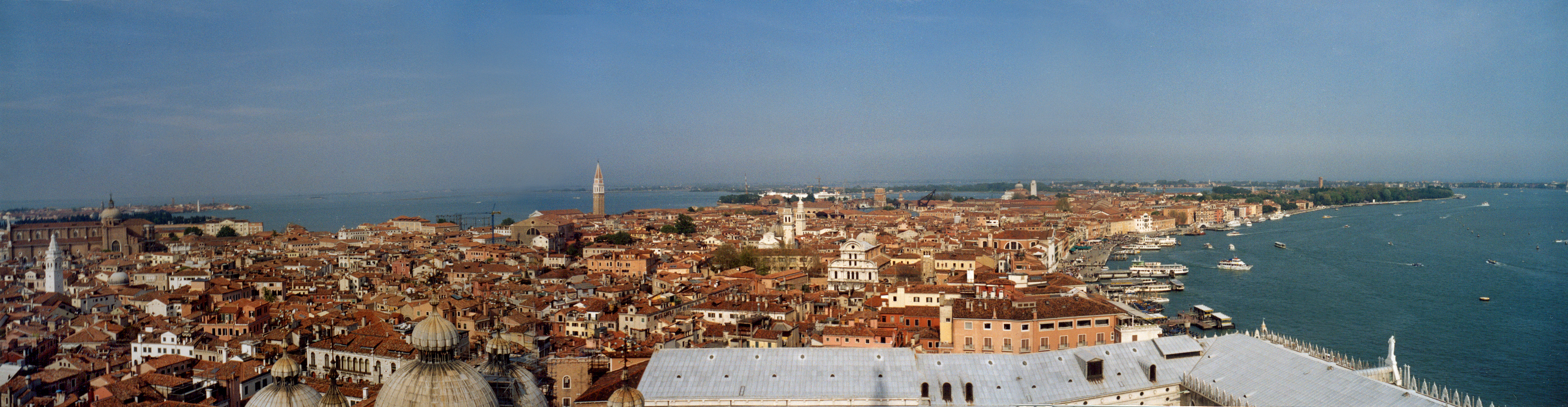 View to Venice from St Mark's Campanile Photo by Anatoly Terentiev, 28 April 2004.